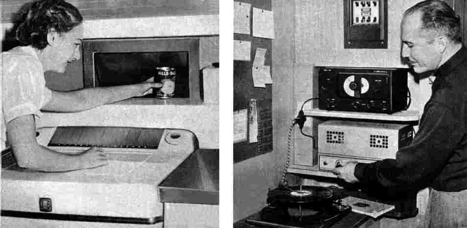 Photos from a 1952 Popular Mechanics article showing Robert and Virginia Heinlein's house in Colorado, which they designed.